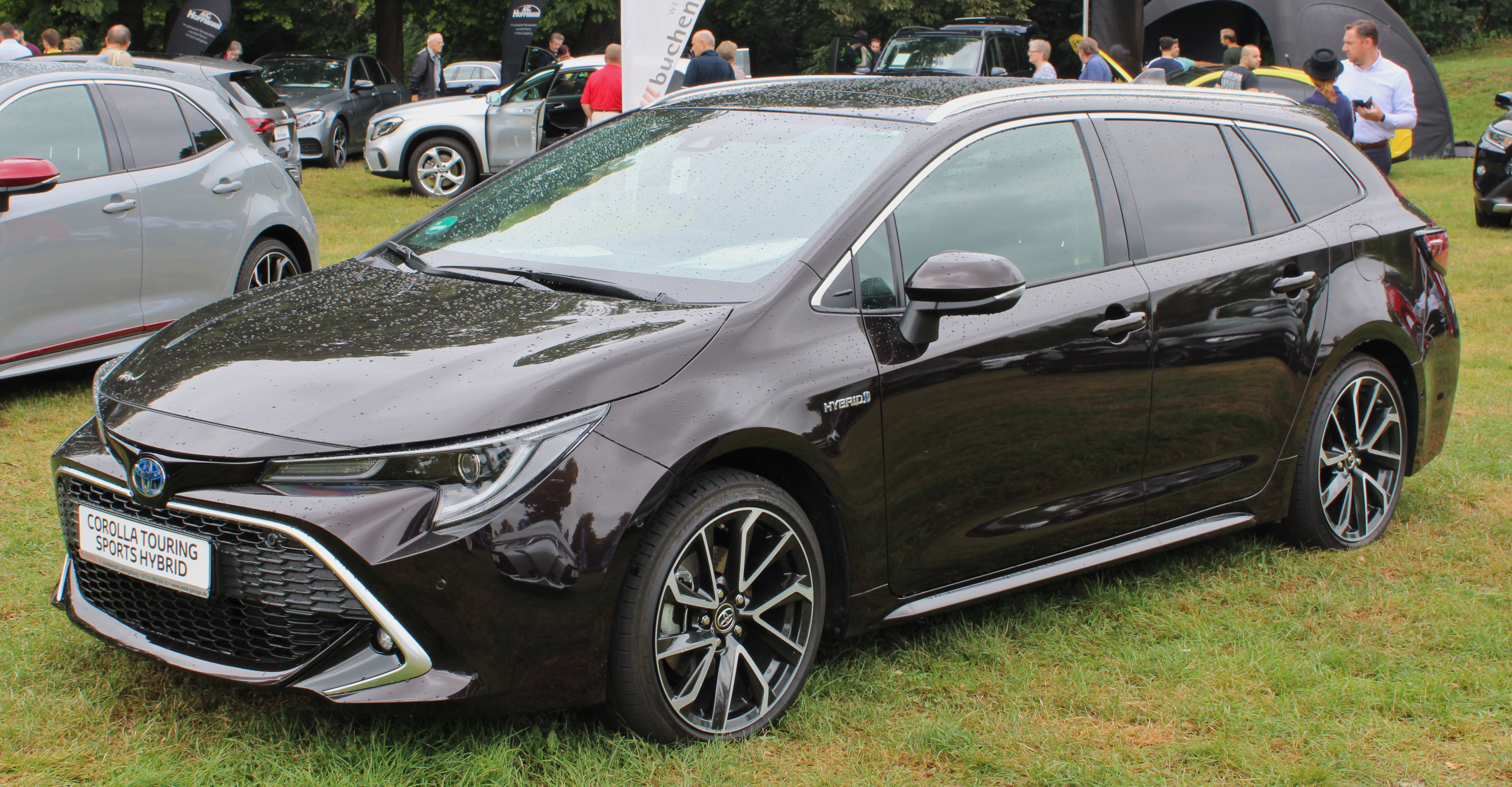 Toyota Corolla Touring Sports at Schloss Monrepos 2019